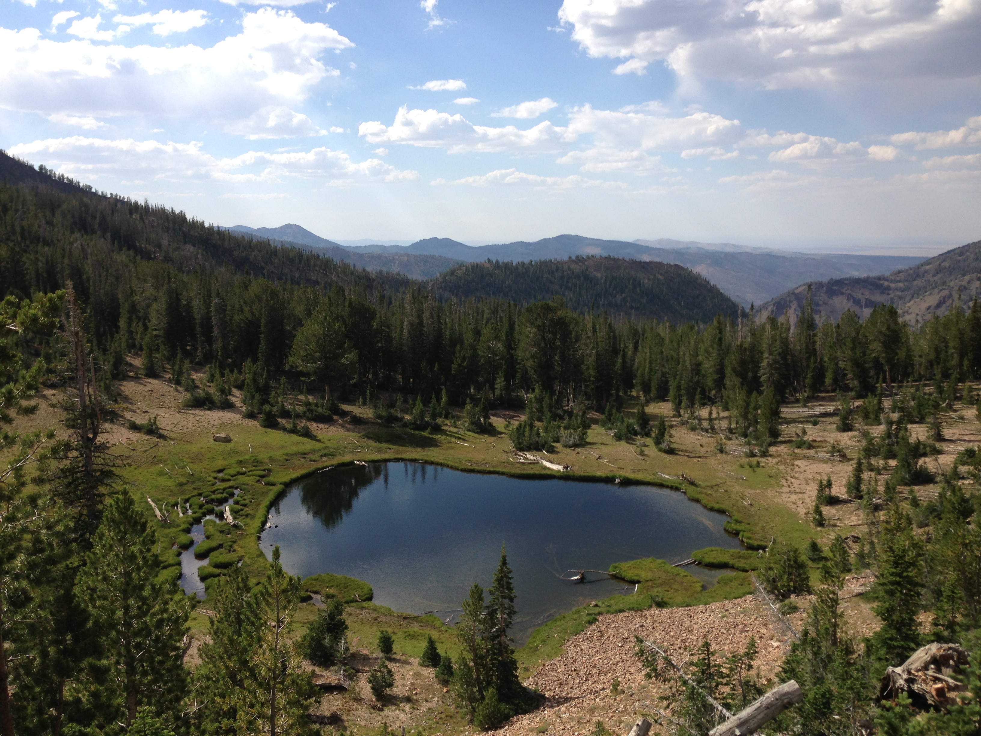 Jarbidge Lake, Nevada viewed from the last few feet of the Jarbidge River Trail